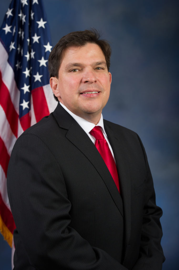 U.S. Rep. Vicente Gonzalez